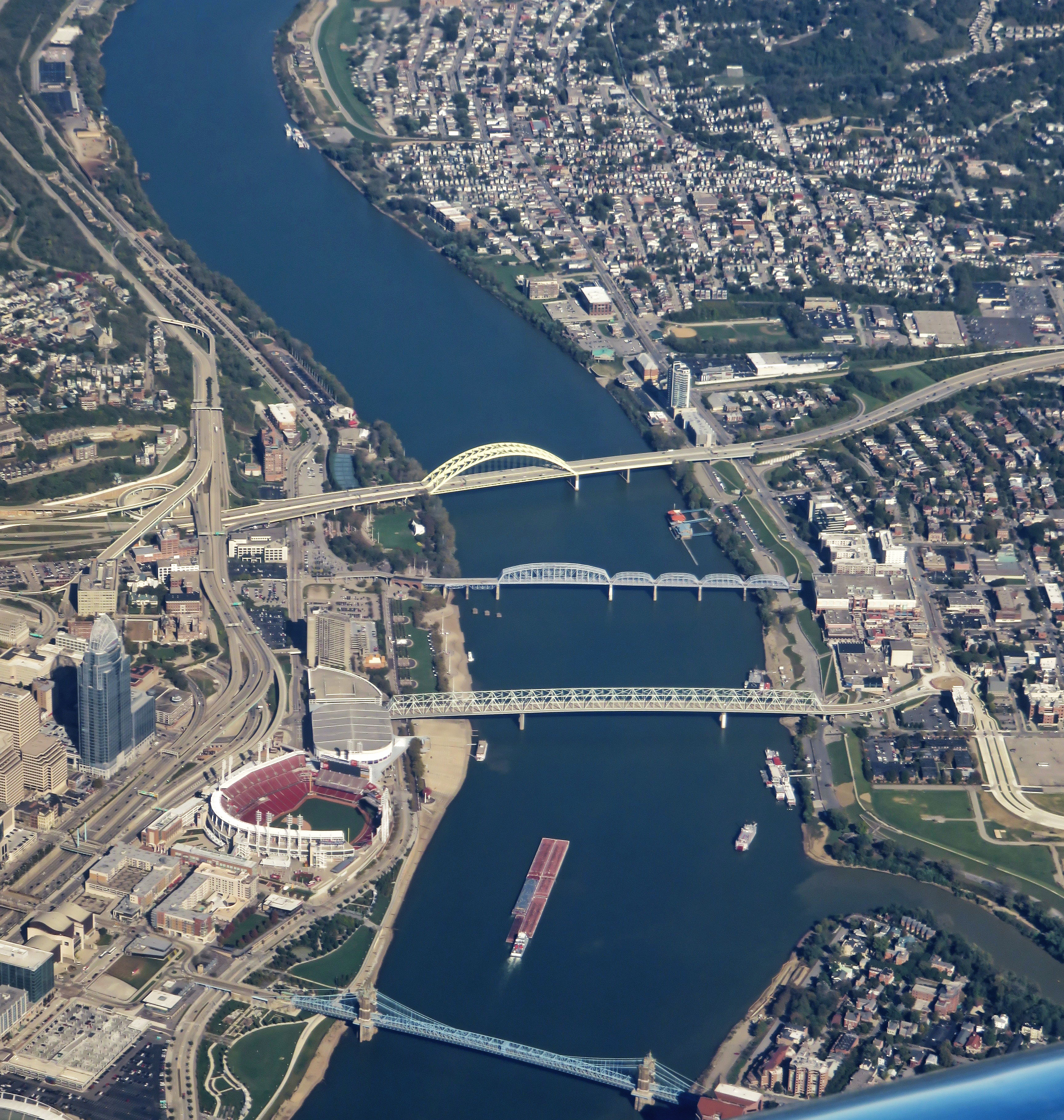 Aerial view of the Daniel Carter Beard Bridge, Newport Southbank Bridge, Taylor–Southgate Bridge, and John A. Roebling Suspension Bridge over the Ohio River in 2017